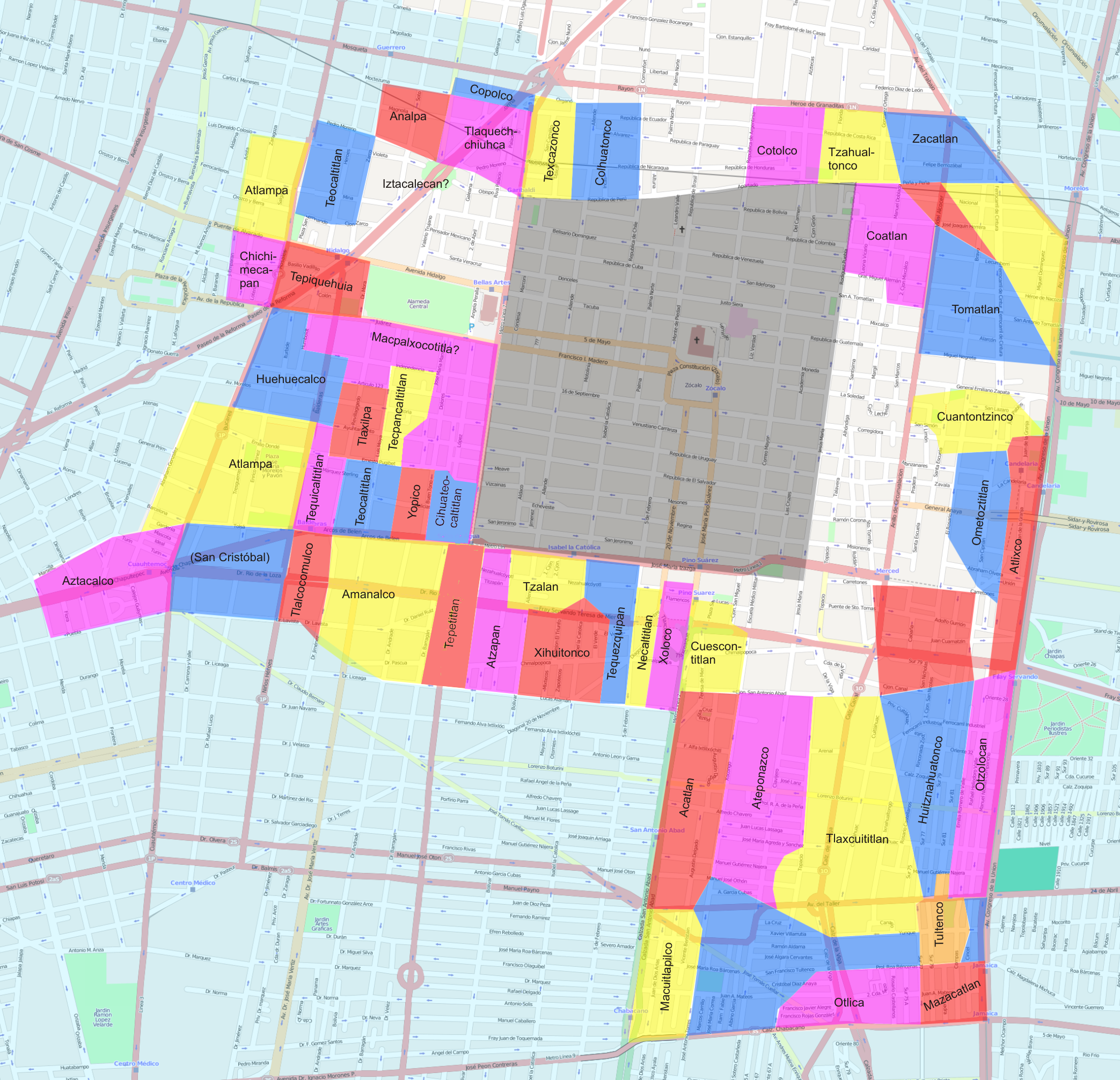 Calpulli (barrios, wards) of Tenochtitlan over modern road network (OpenStreetMap)